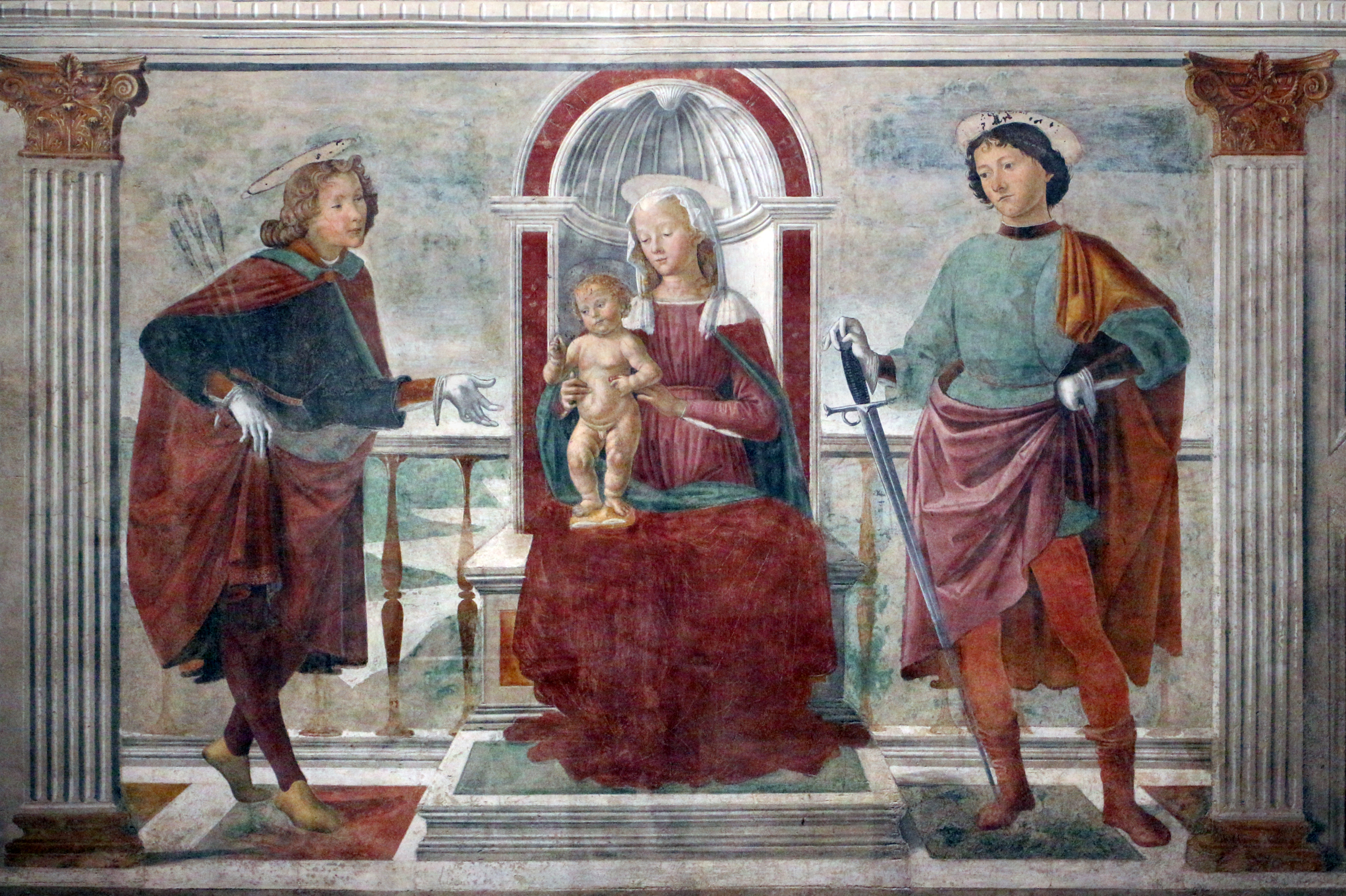 Sant'Andrea (San Donnino)